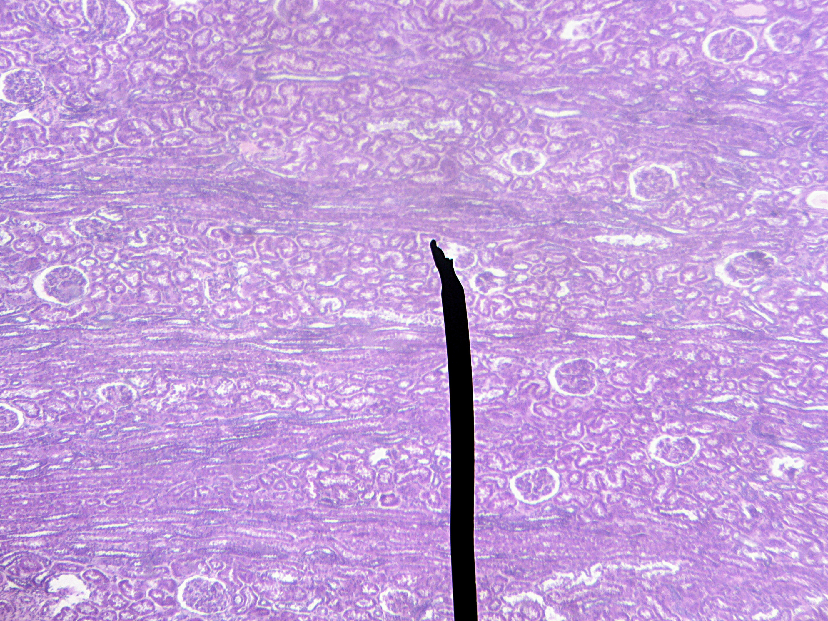 Author' own picture. Human Kidney (Cortex). Digital camera shot through a microscope.